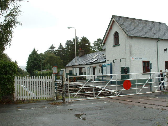 Tal y Cafn. Railway Crossing and Station